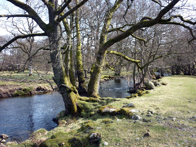 Haweswater Beck This is the water that doesn't get taken to Manchester. It joins the River Lowther then the Eden.